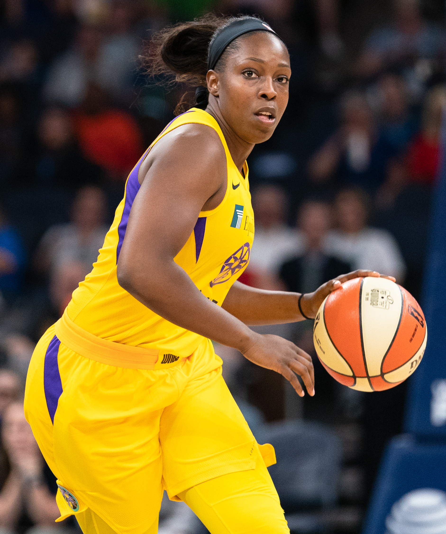 Los Angeles player Chelsea Gray in a game against the Minnesota Lynx